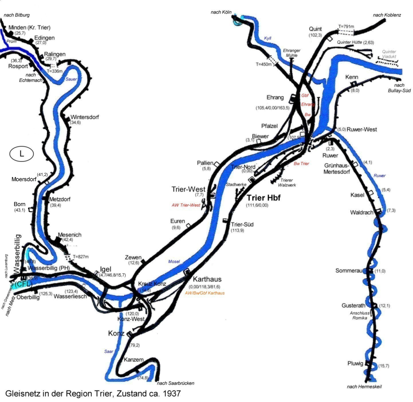 The railroad network at Trier, Germany, circa 1937.